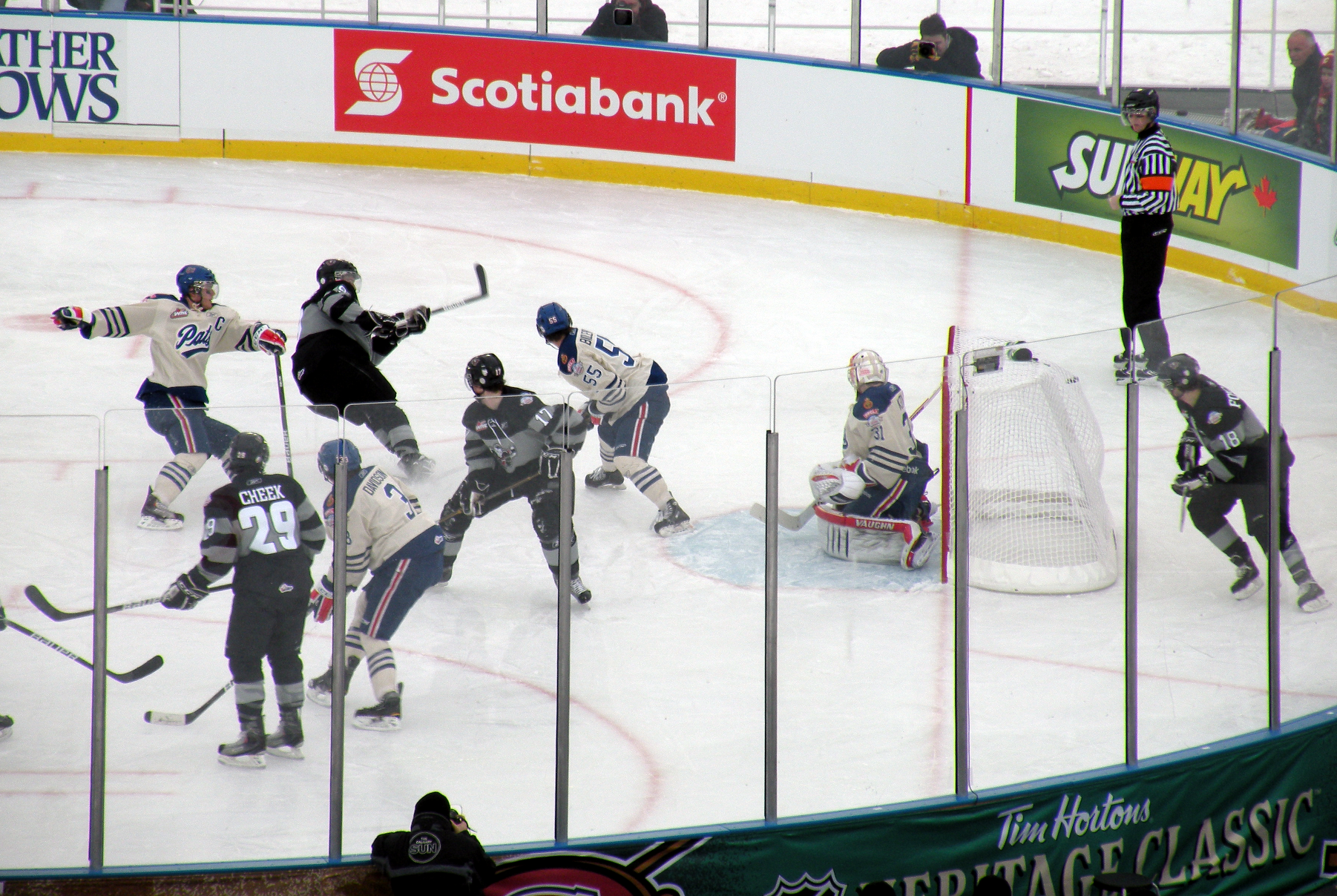 Calgary's Jaynen Rissling scores the Hitmen's first goal during the Calgary Hitmen-Regina Pats game as part of the 2011 Heritage Classic at McMahon Stadium in Calgary.